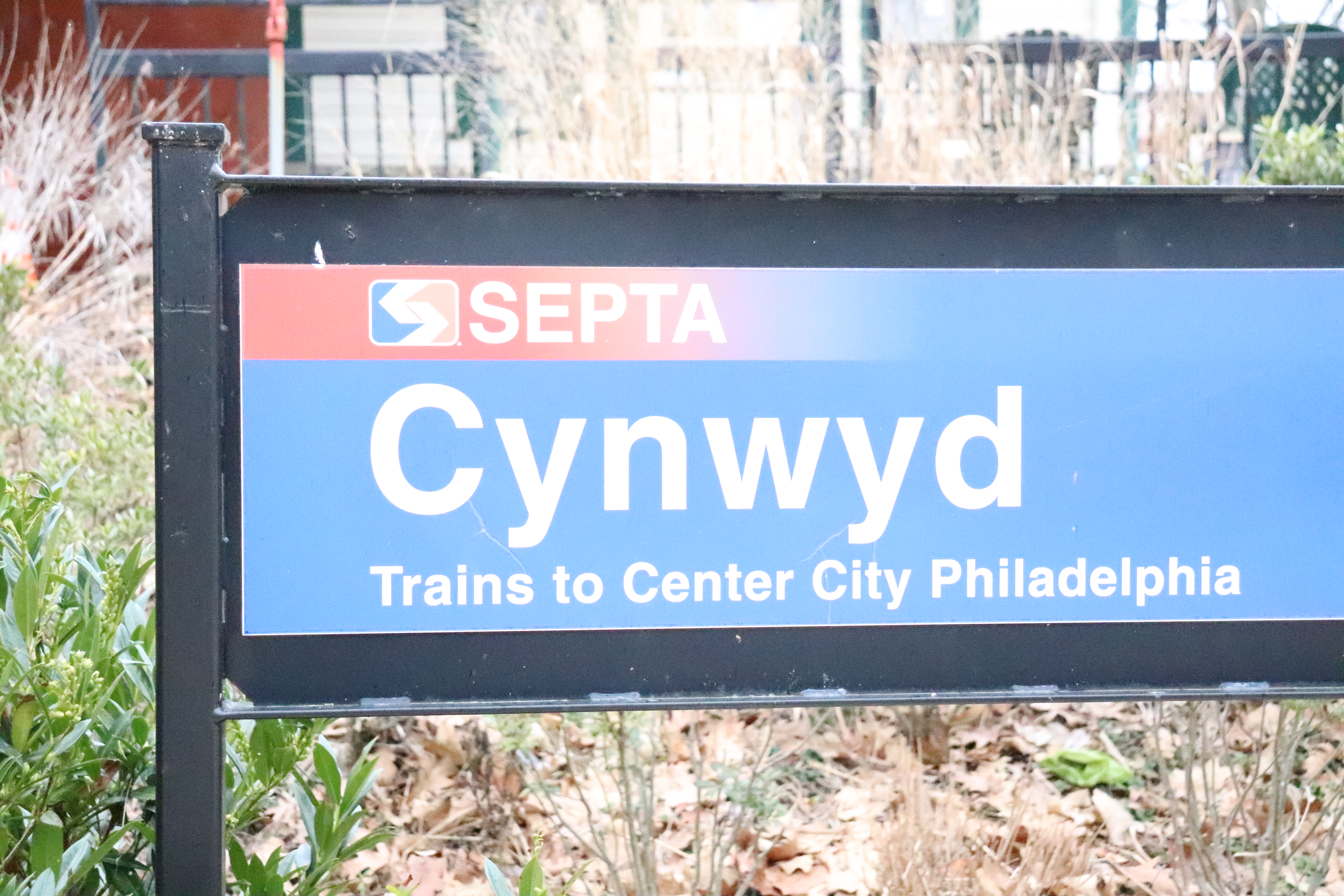 Cynwyd Line